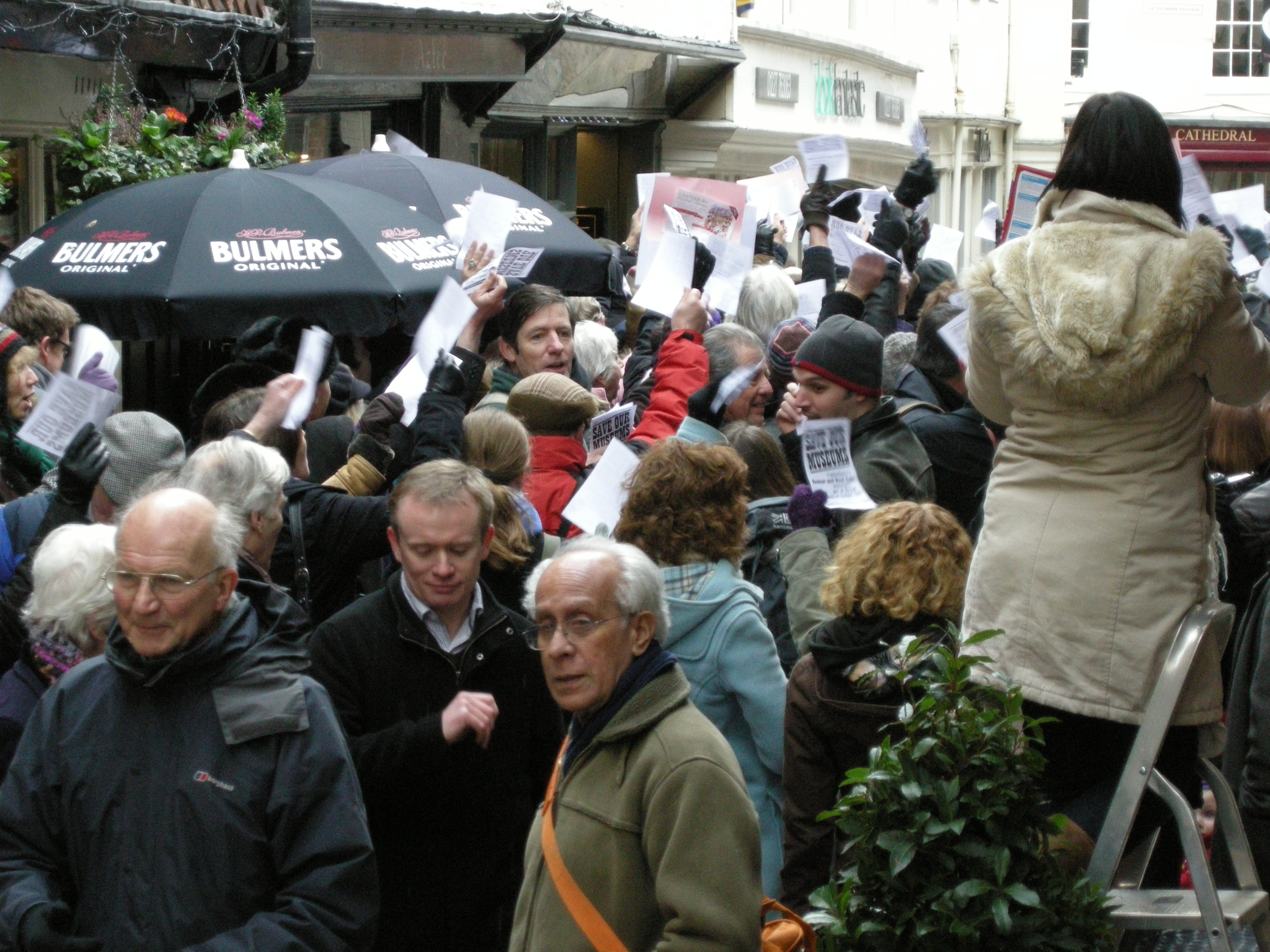 A flash mob, or 30-minute crowd-gathering, created as a Media event outside the Roman Museum in narrow Butchery Lane, Canterbury, Kent by Canterbury Archaeological Trust (CAT) at midday on 13 February 2010. The event was to raise Media awareness that Canterbury and Herne Bay museums were threatened with closure by the City of Canterbury budget 2010−2011. All those present were aware that they were there to be photographed.